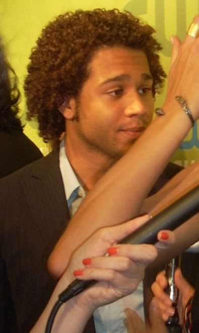 Corbin Bleu at the CW Upfront Presentation: Green Carpet Arrivals, Madison Square Garden, New York City - May 21, 2009